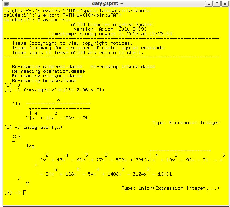 Axiom performing the Risch Integration